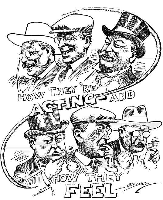 US editorial cartoon from 1912 presidential election season. Shows candidates Theodore Roosevelt, Woodrow Wilson, and William Howard Taft (left to right at top, and right to left at bottom). They are shown with confident smiling faces at top, labeled "How They're Acting"; below "How They Feel" they have uncertain worried faces. 1912 cartoon signed "Berryman".